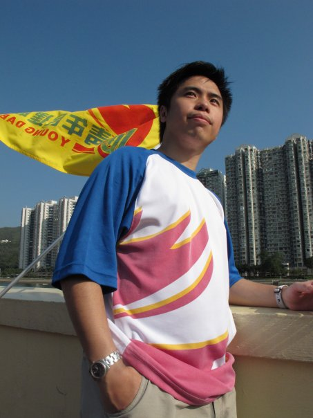 photo